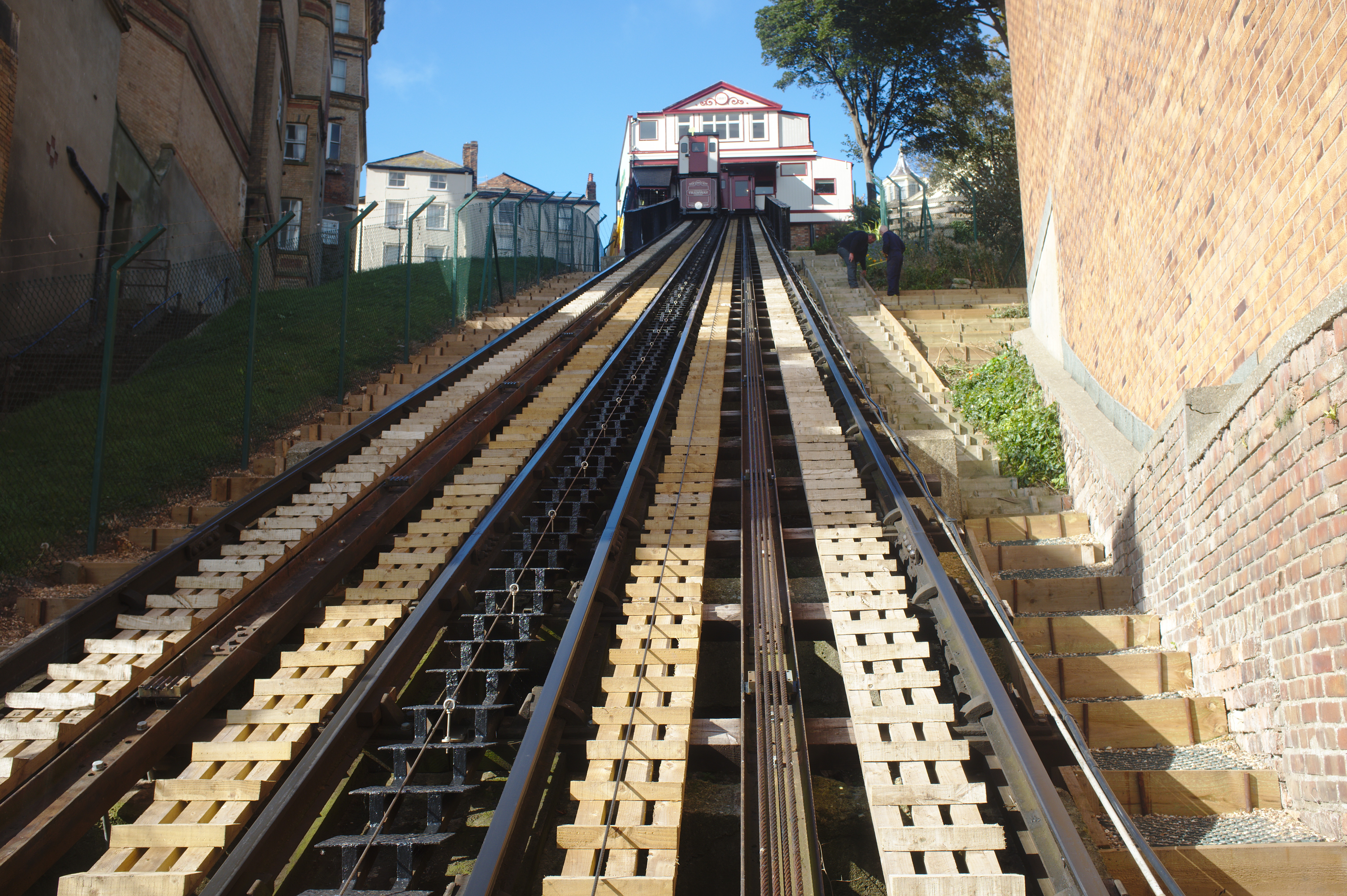 Cliff railway track